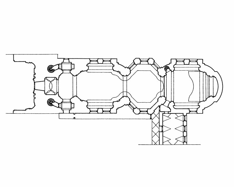 Ground plan of Provost Church of St Peter and Paul in Rajhrad by Jan Santini Aichel